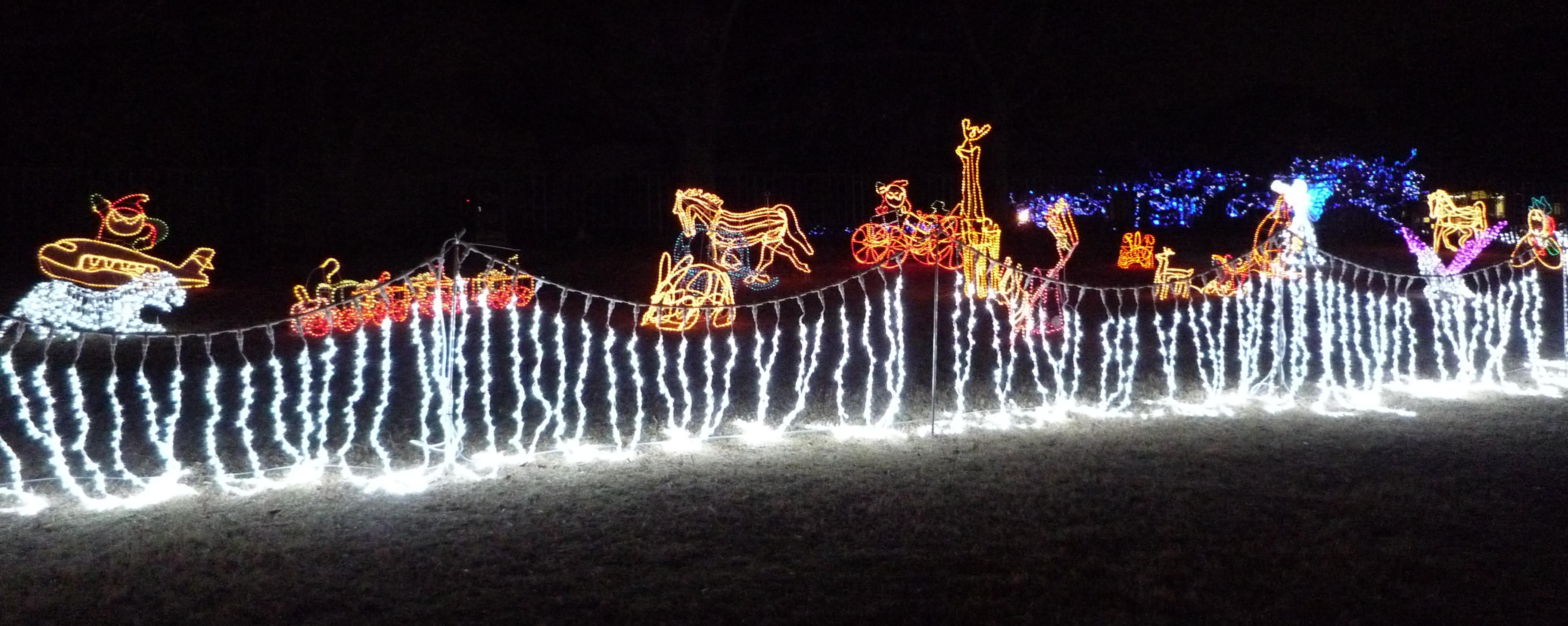 suita,osaka Expo Memorial Park